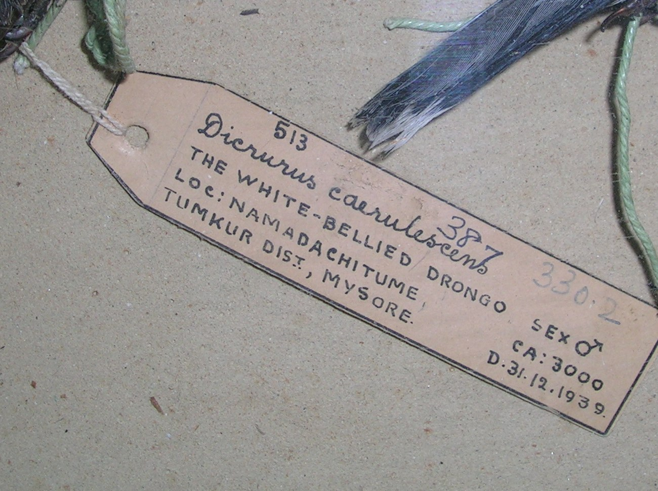 Label of specimen collected by Salim Ali at Namadachilume (misspelt as Namadachitume)